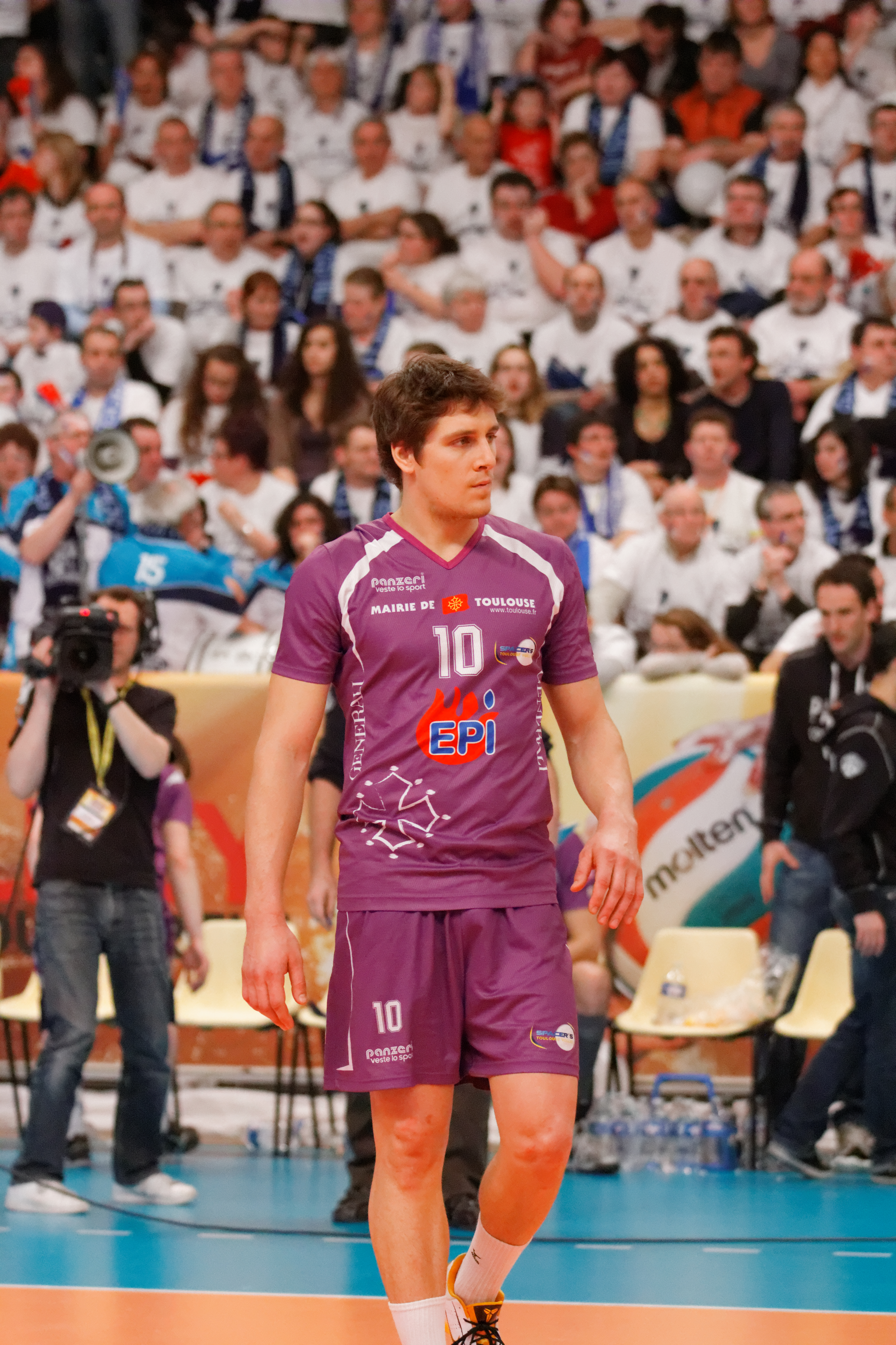 Final of the Volleyball French Cup, Tours Volley-Ball - Spacer's Toulouse Volley, March 30, 2013. Evan Patak.